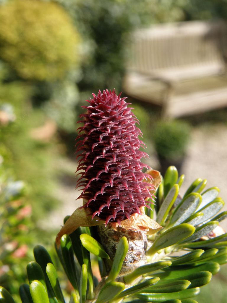 Abies koreana young female cone at pollination. Cultivated, Cumbria, UK.